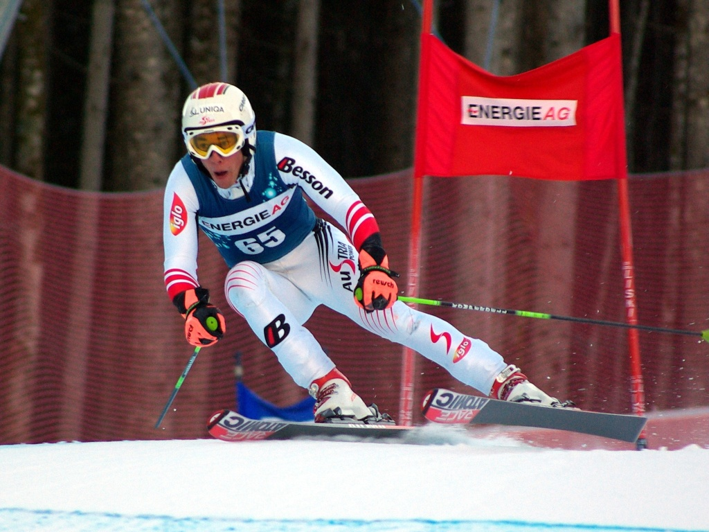 Austrian alpine skier Björn Sieber during the European Cup Giant Slalom in Hinterstoder, Austria on January 11, 2008.